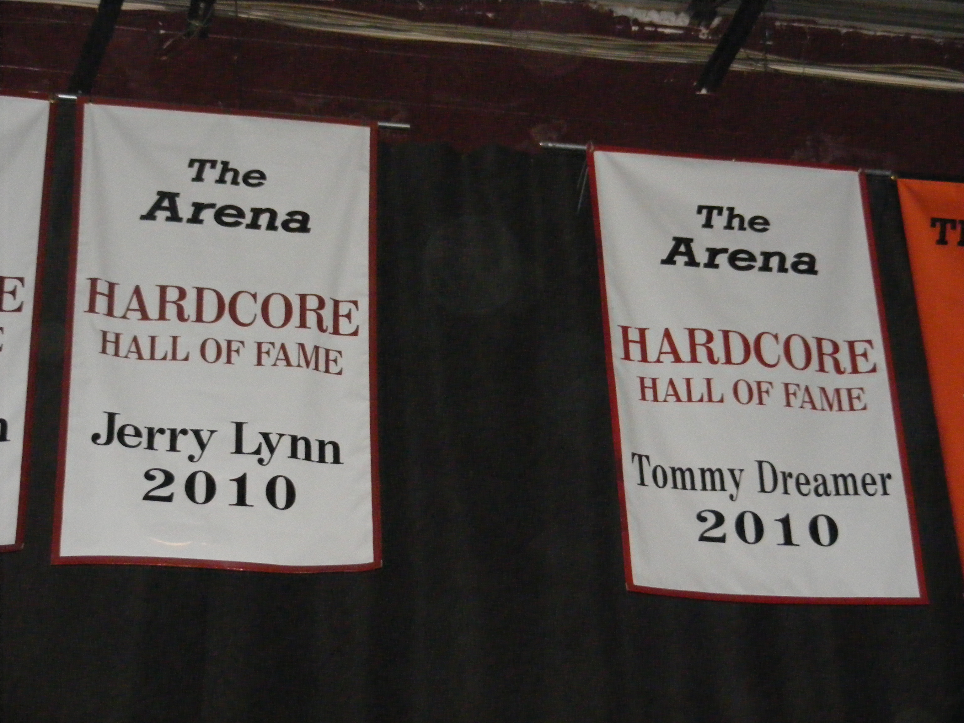 Jerry Lynn's and Tommy Dreamer's Hardcore Hall of Fame banners hanging in the ceiling of the Asylum Arena.